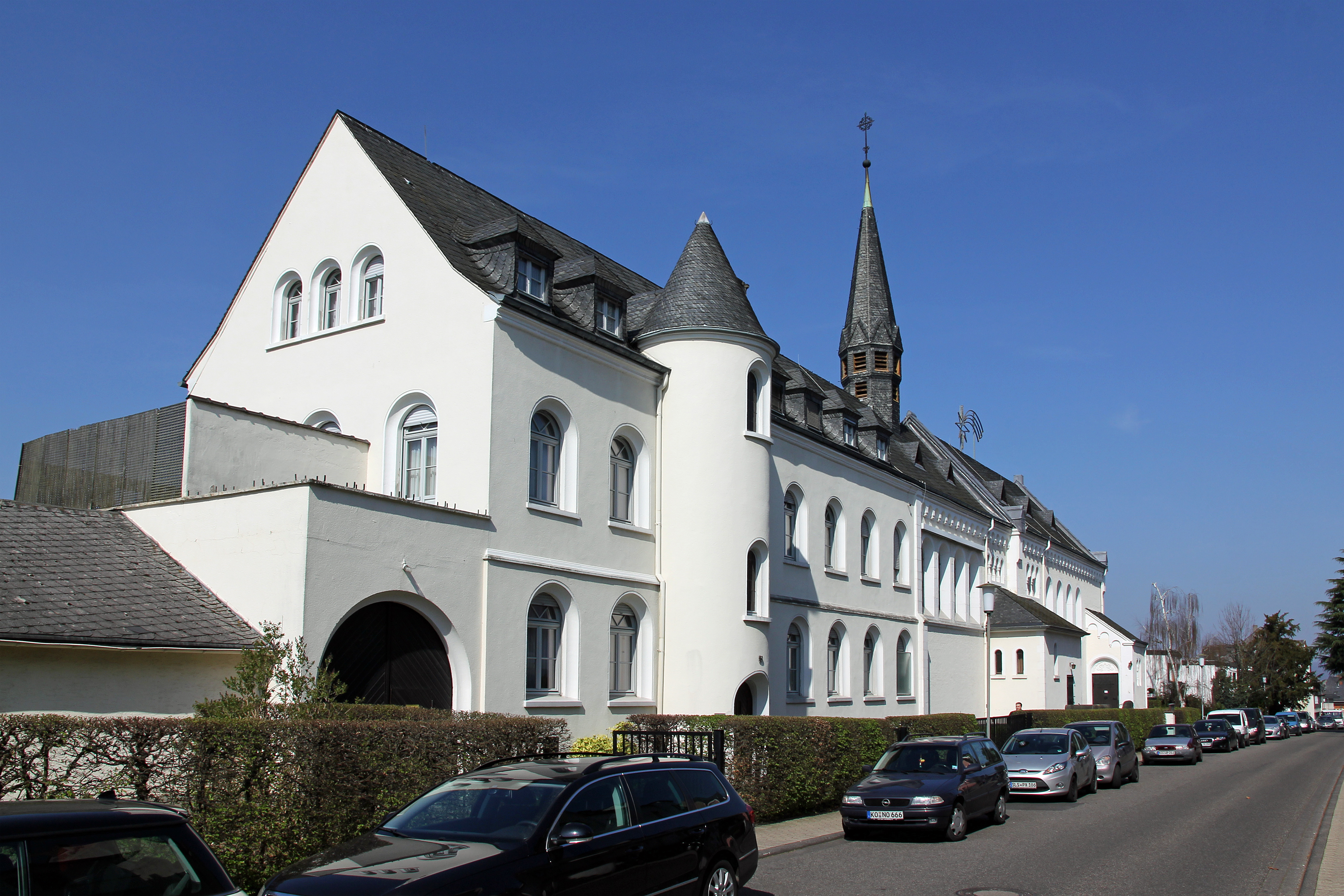 Bethlehem monastary in Koblenz